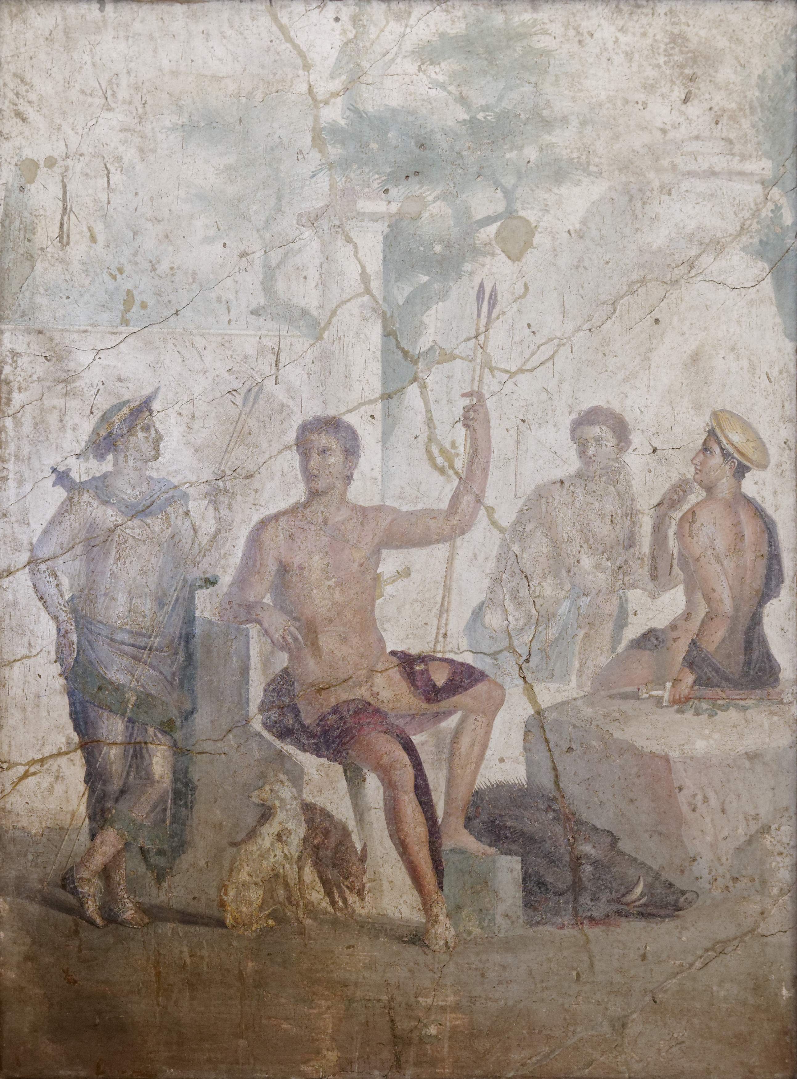 Meleager and Atalanta resting after the hunt for the Calydonian boar.